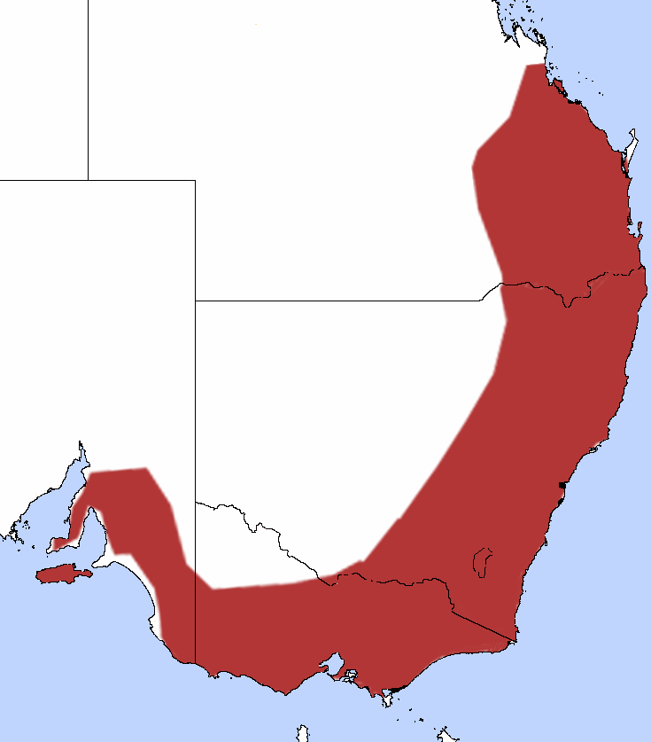 Striated Thornbill distribution.